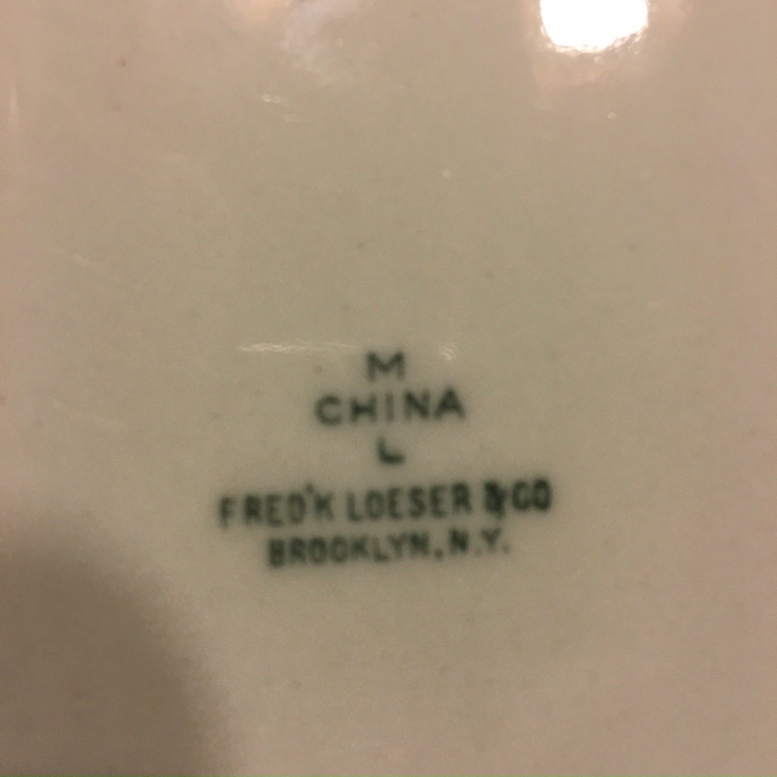 Frederick Loeser & Co. Back Stamp